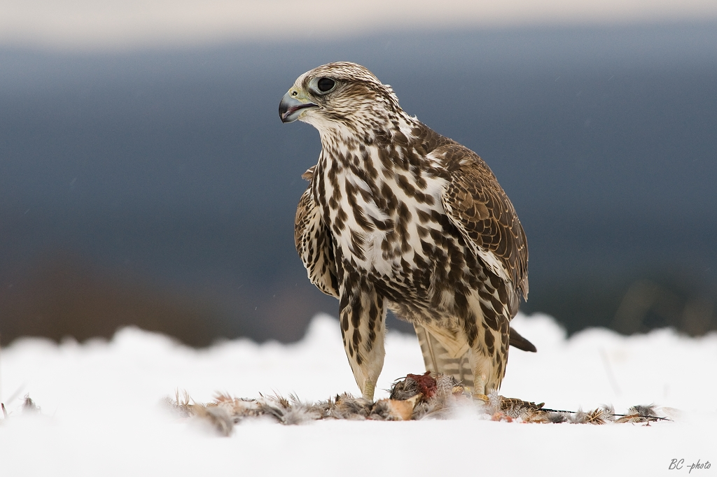 Falco cherrug, Herálec, Czech Republic